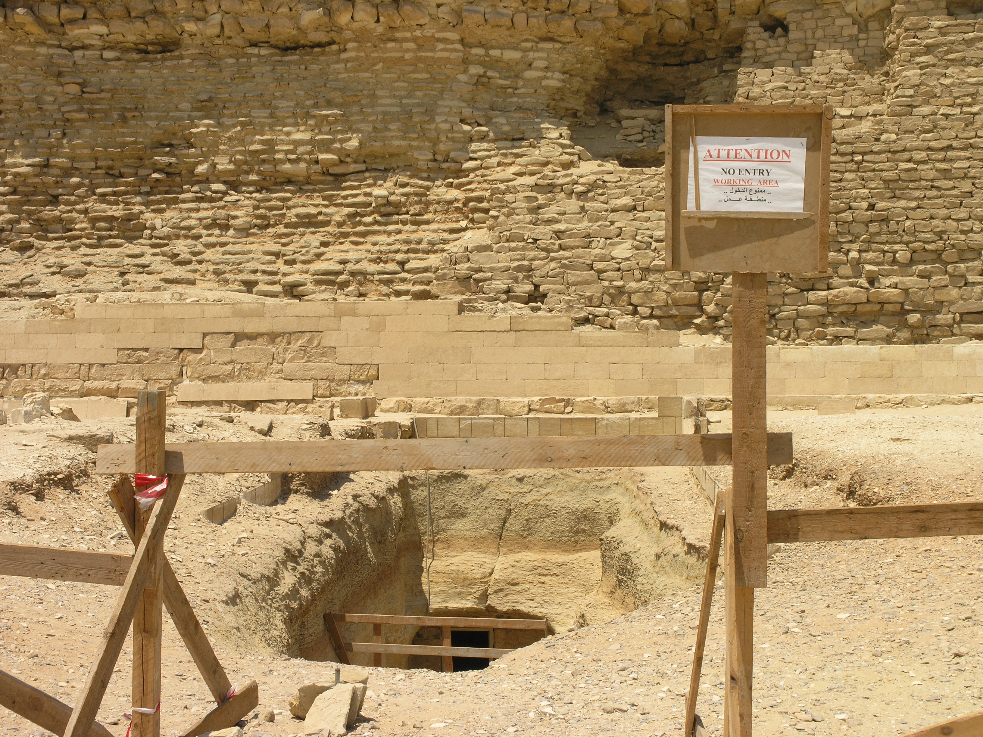 Saqqara - Pyramid of Djoser complex - no entry area